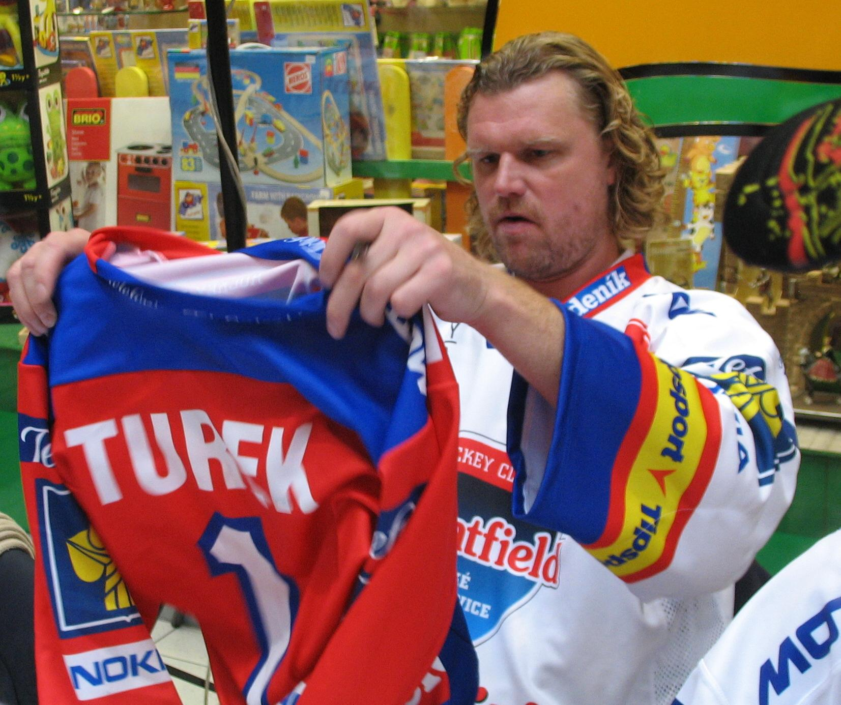 Roman Turek by autography